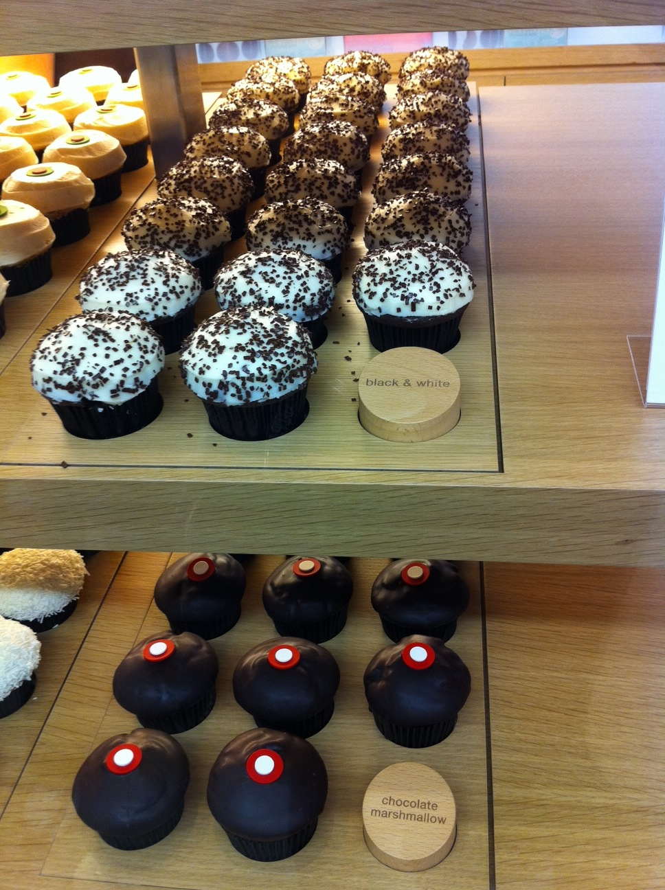 Sprinkles Cupcakes in New York